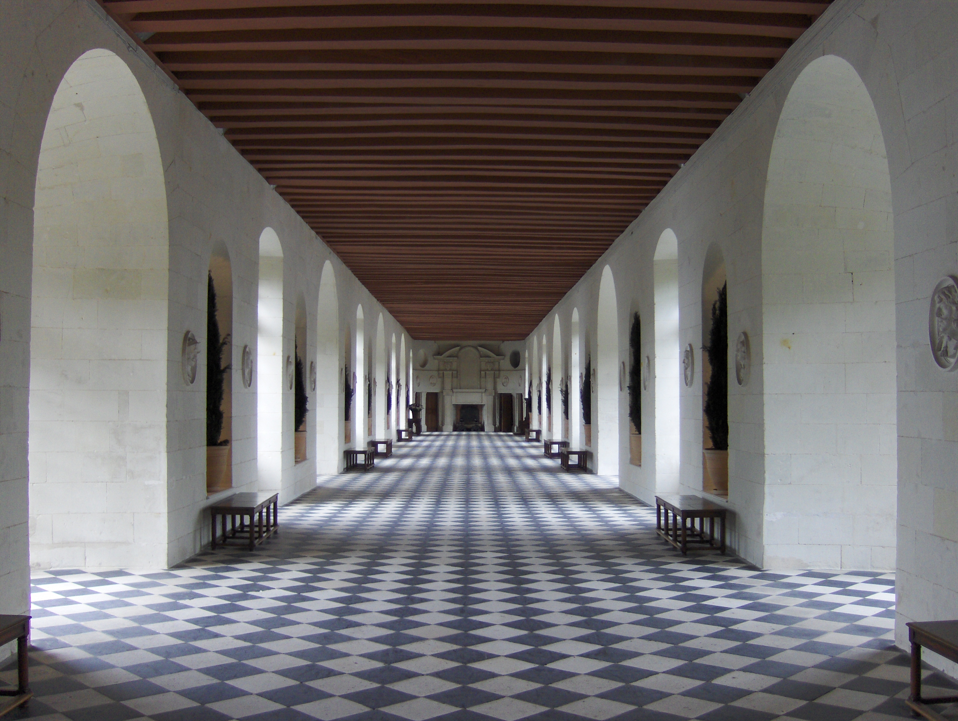 Château de Chenonceau, interior view of the gallery on the ground floor